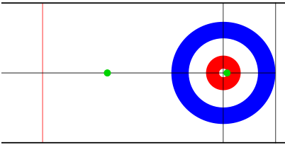 Based on File:Mixed doubles house.svg